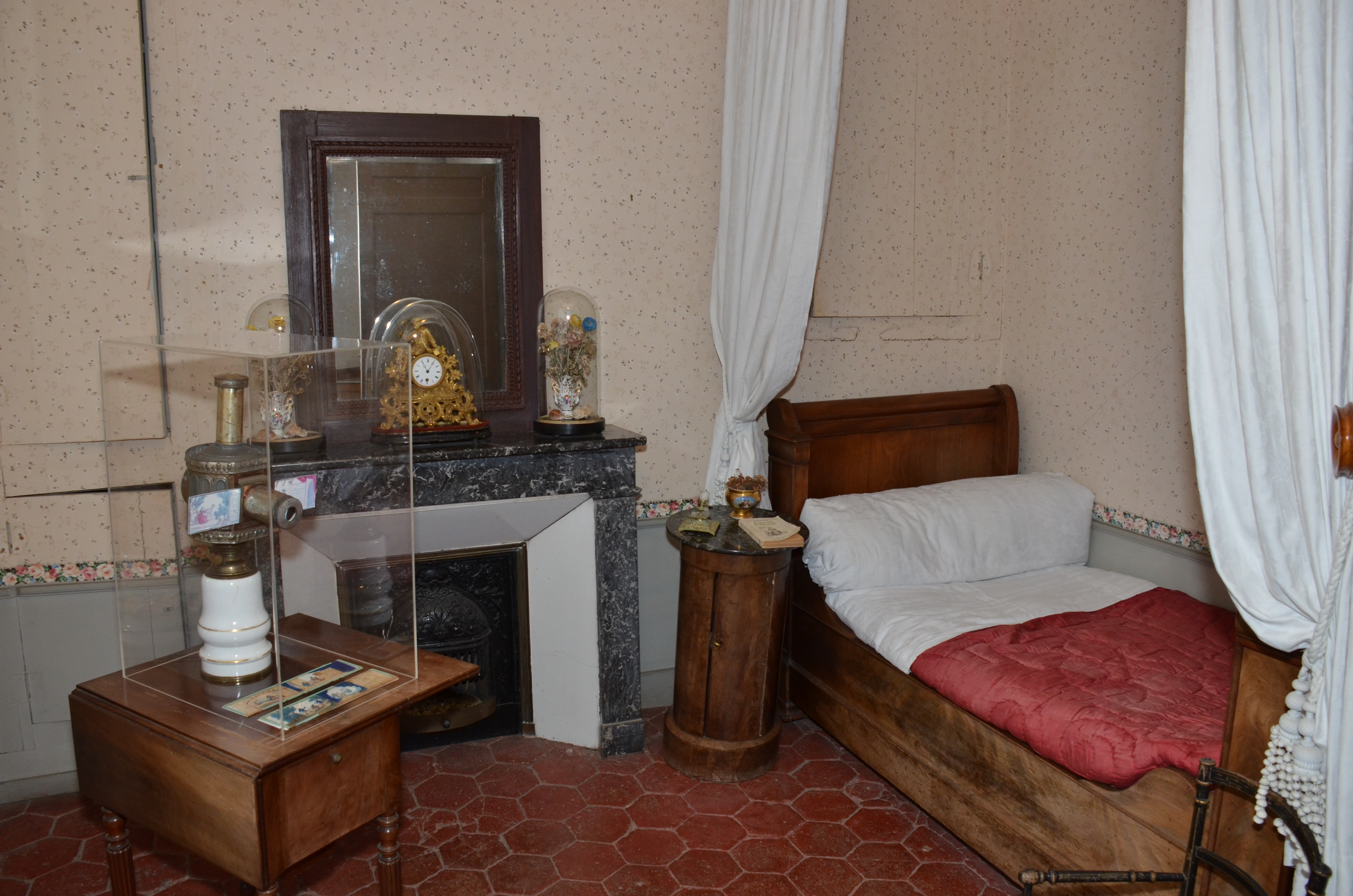 The room of little Marcel. On the left, his oil projection apparatus.